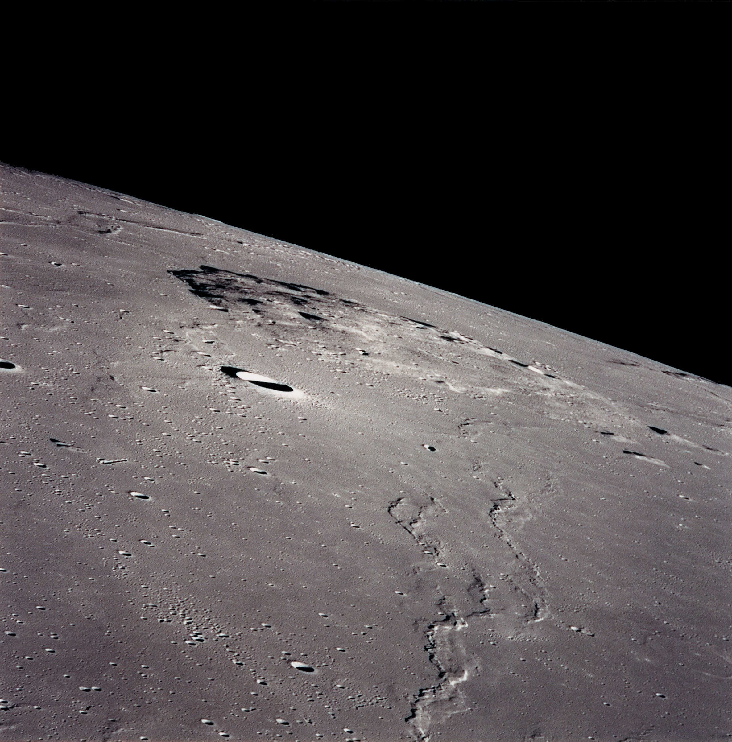 This picture of the Mons Rümker rise on the Oceanus Procellarum was taken from the Apollo 15 while in lunar orbit. The image is reduced in size by 50% from the original.